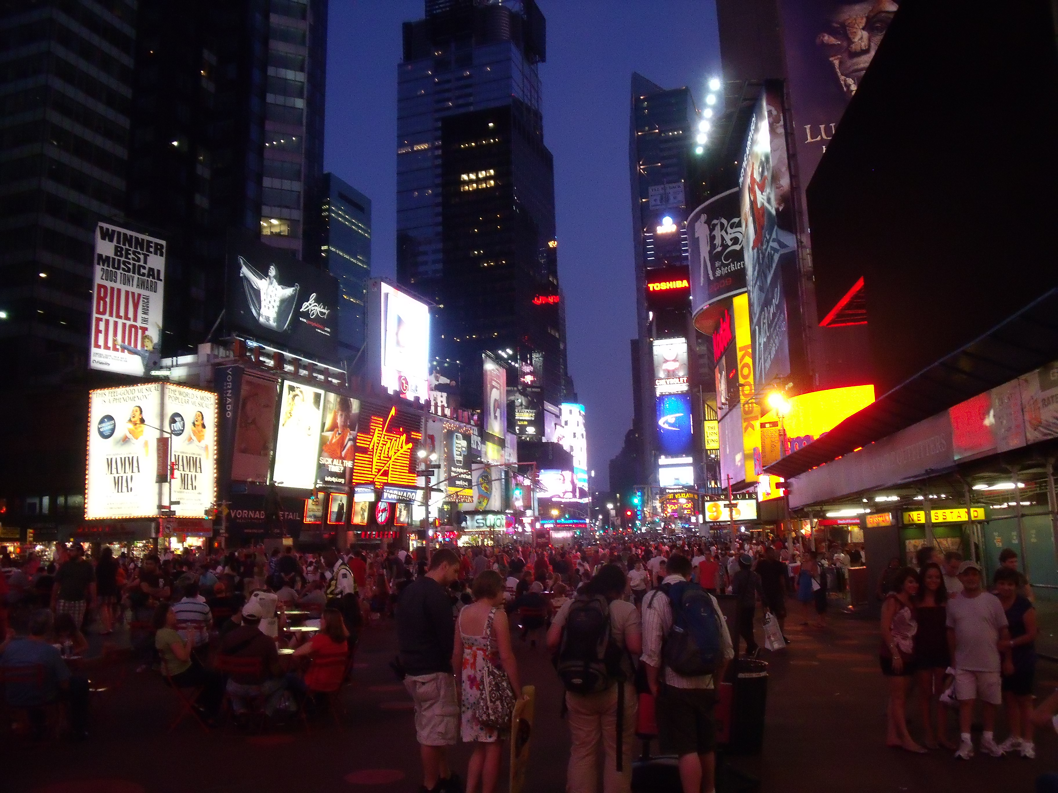 Times Square